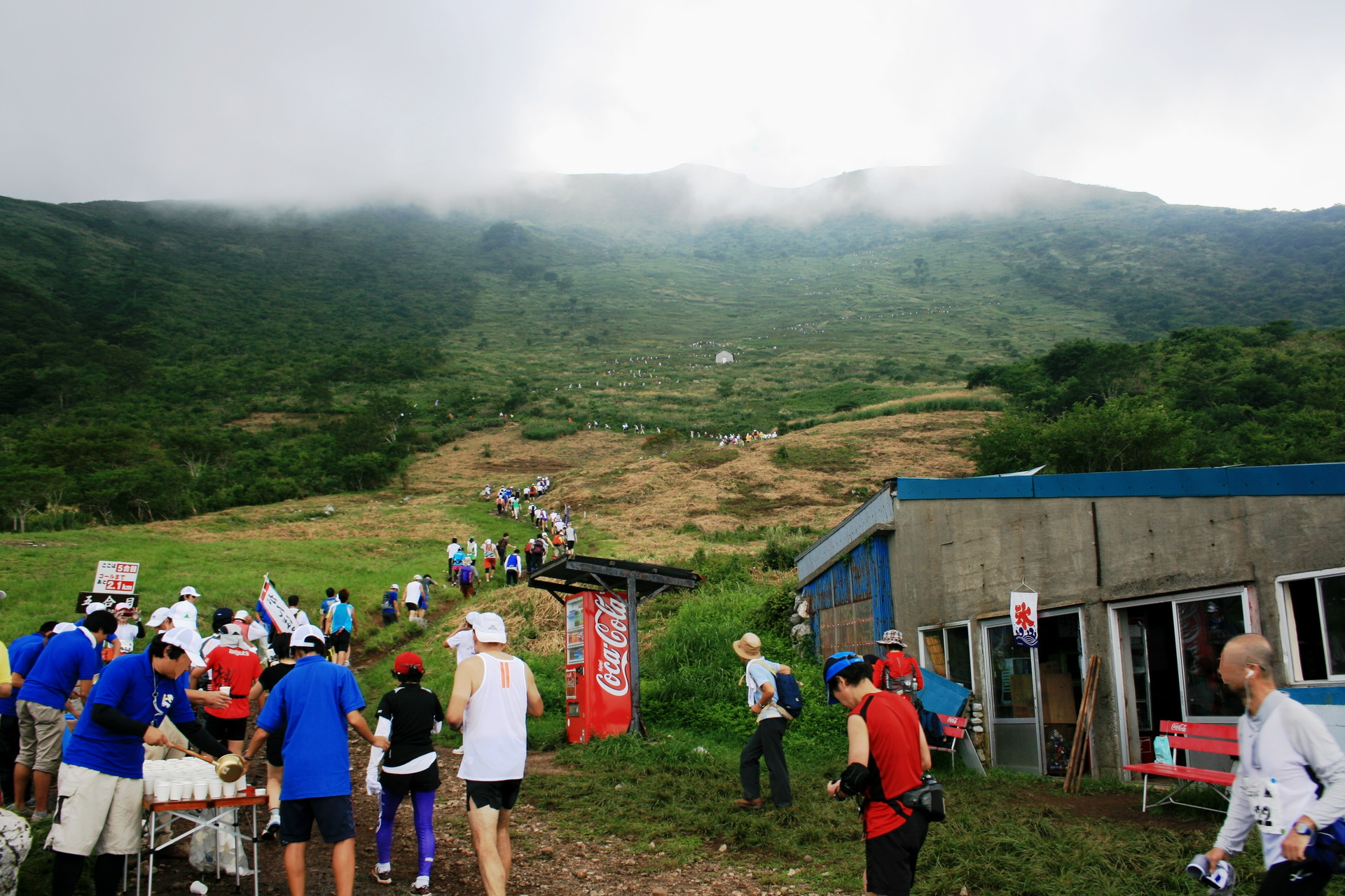 Kattobi ibuki at hiking trails (5th station) of Mount Ibuki, in Maibara, Shiga prefecture, Japan.